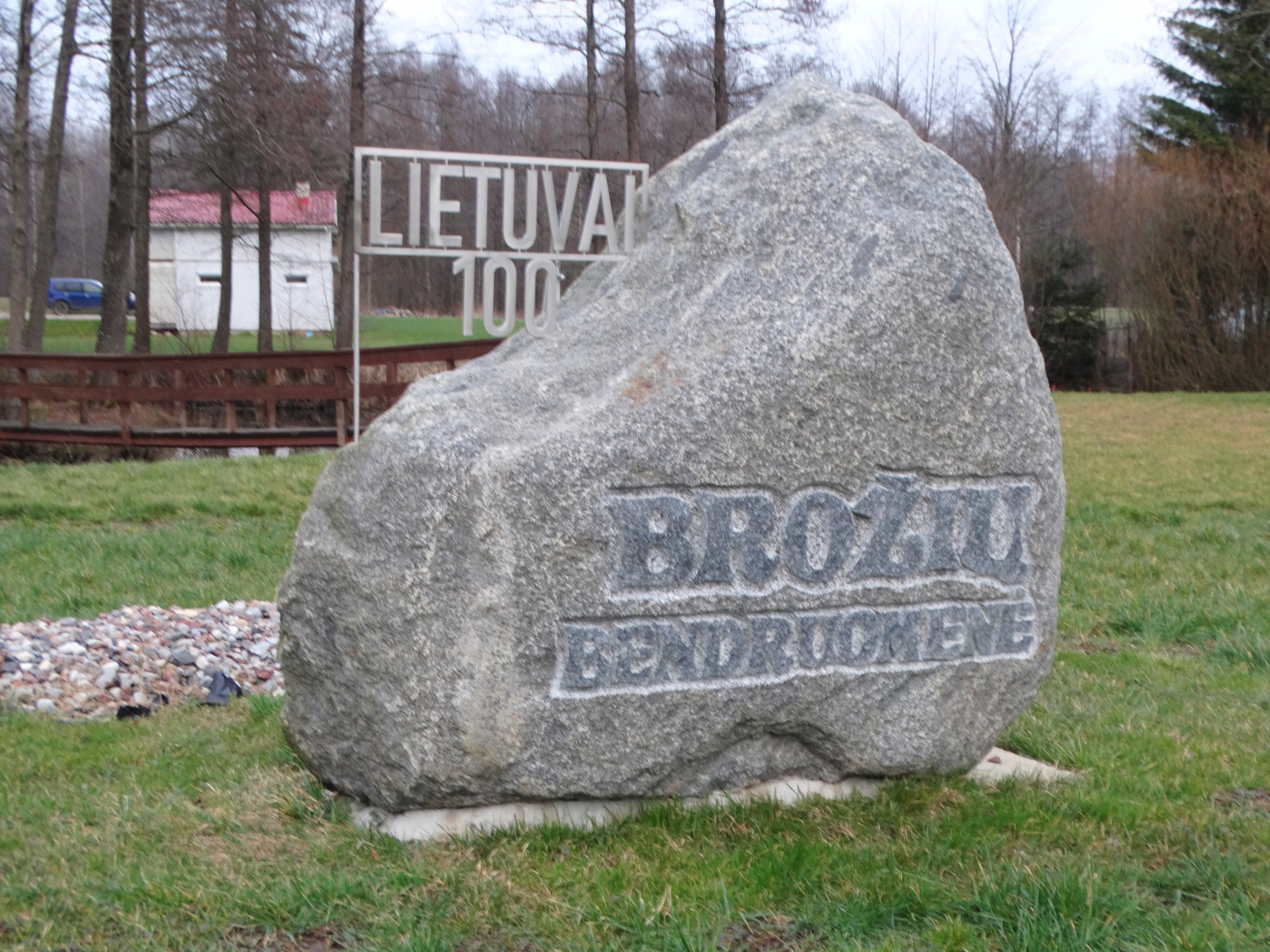 Brožiai, former school, Klaipėda District. Lithuania